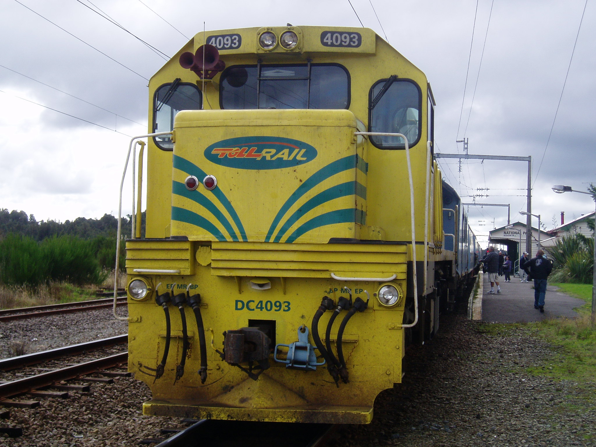 Toll Rail DC class locomotive at National Park hauling The Overlander from Auckland to Wellington, New Zealand.